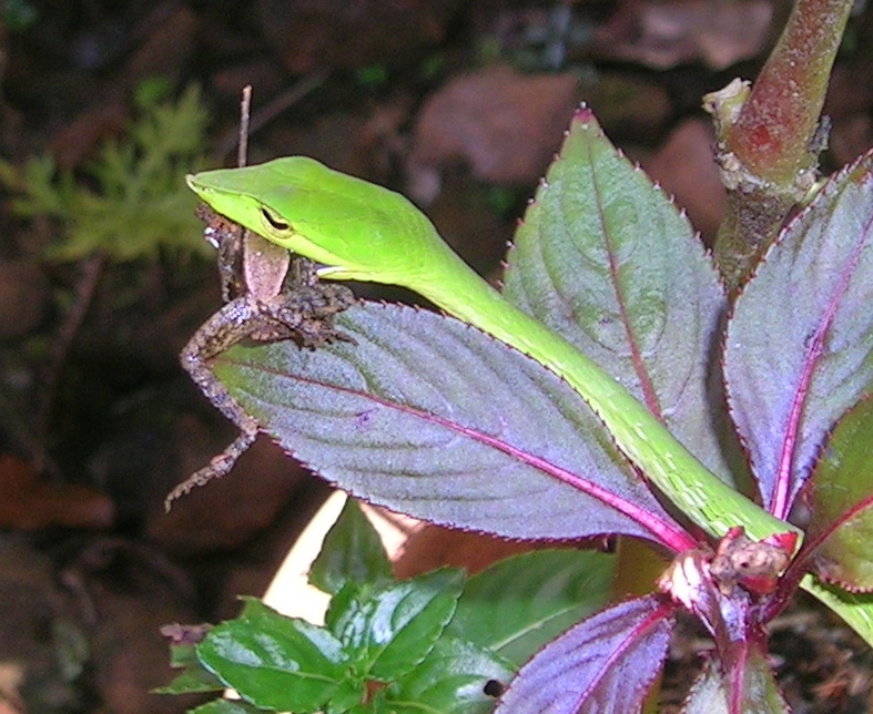 Ahaetulla nasuta feeding on Rana temporalis. Wynaad, India